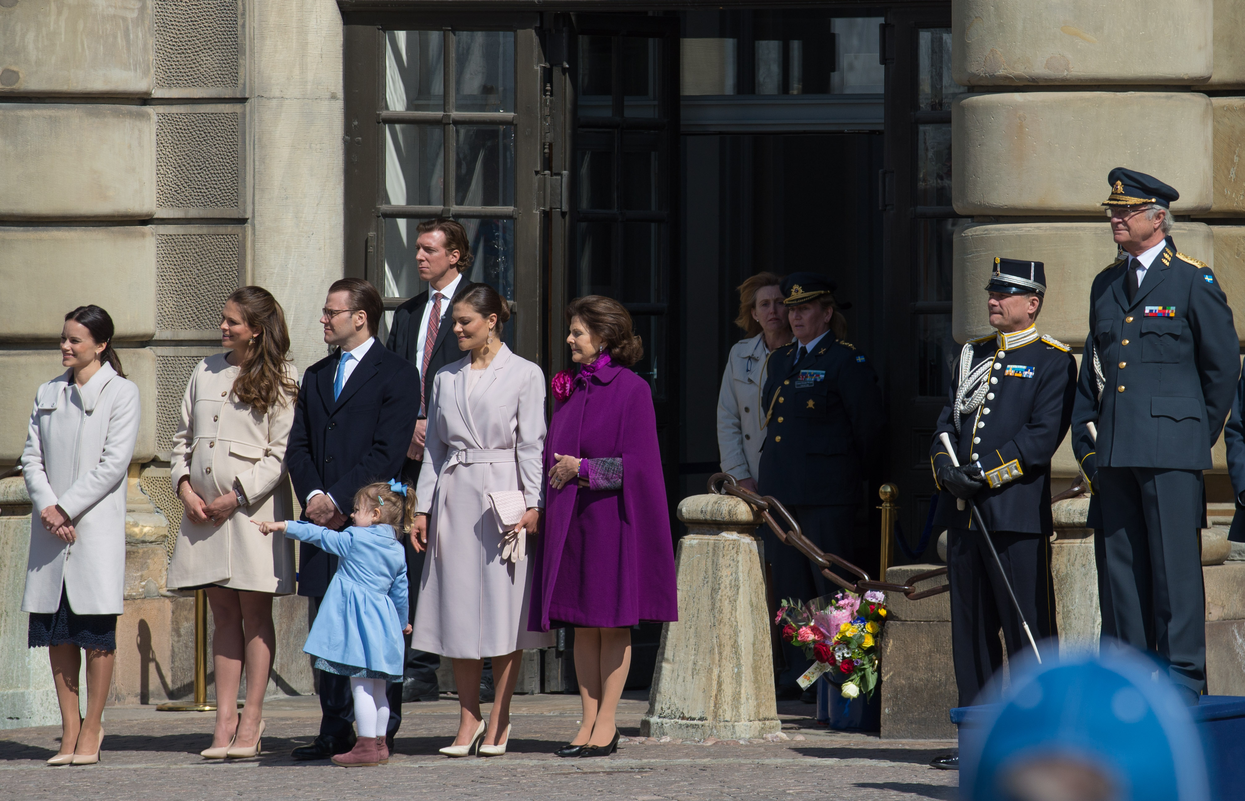 Birthday of Carl XVI Gustaf April 30, 2015.